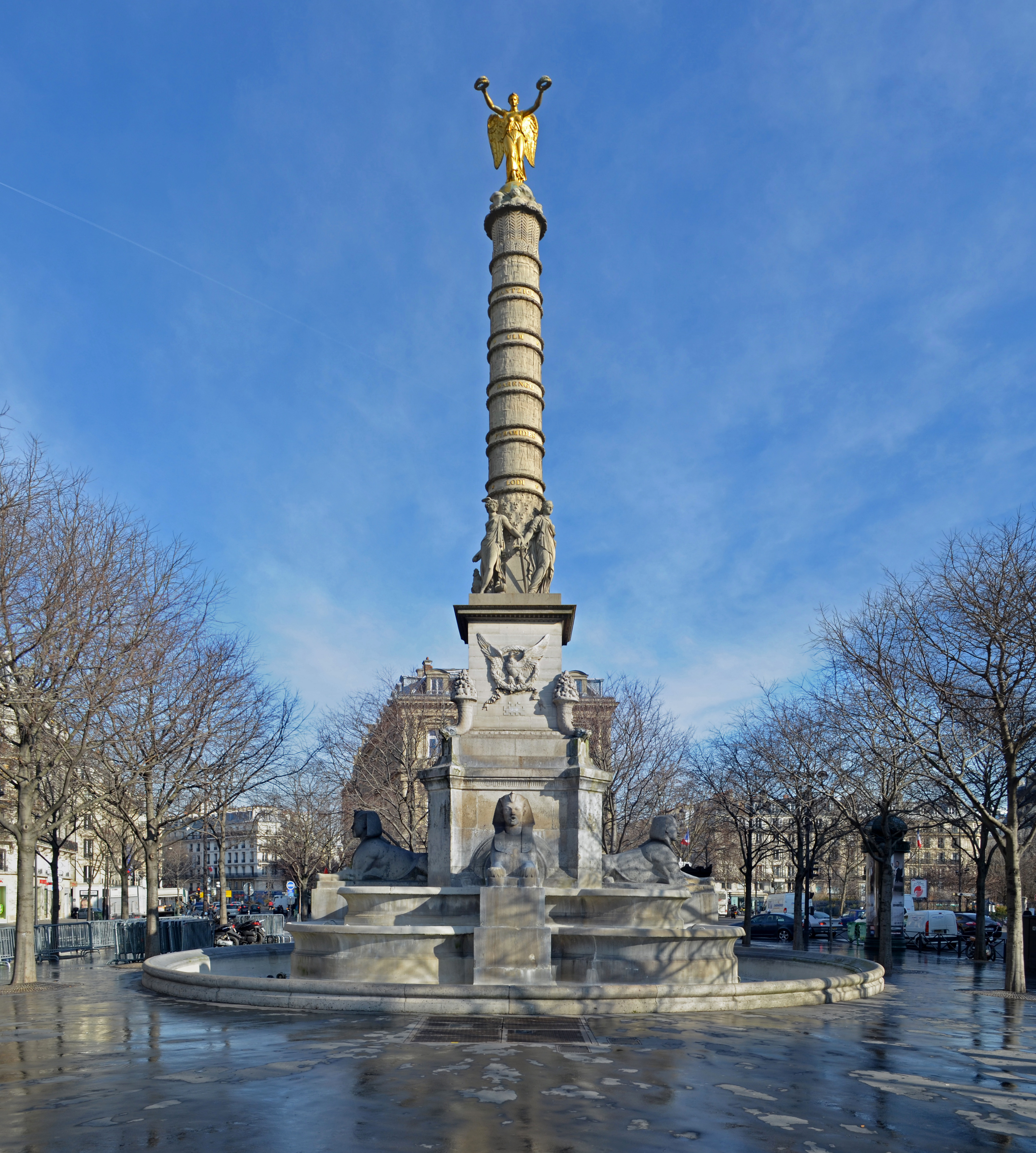 The Fontaine du Palmier - 1st arrondissement of Paris, France. Allegorical sculpture of the Victory at the top by Louis-Simon Boizot. Sphinx sculptures by Henri Alfred Jacquemart .